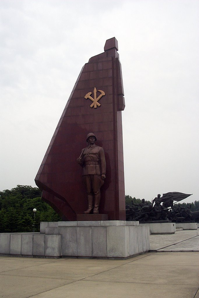 Victorious Fatherland Liberation War Museum, Pyongyang (조국해방전쟁승리기념탑 중 당기와 군기)